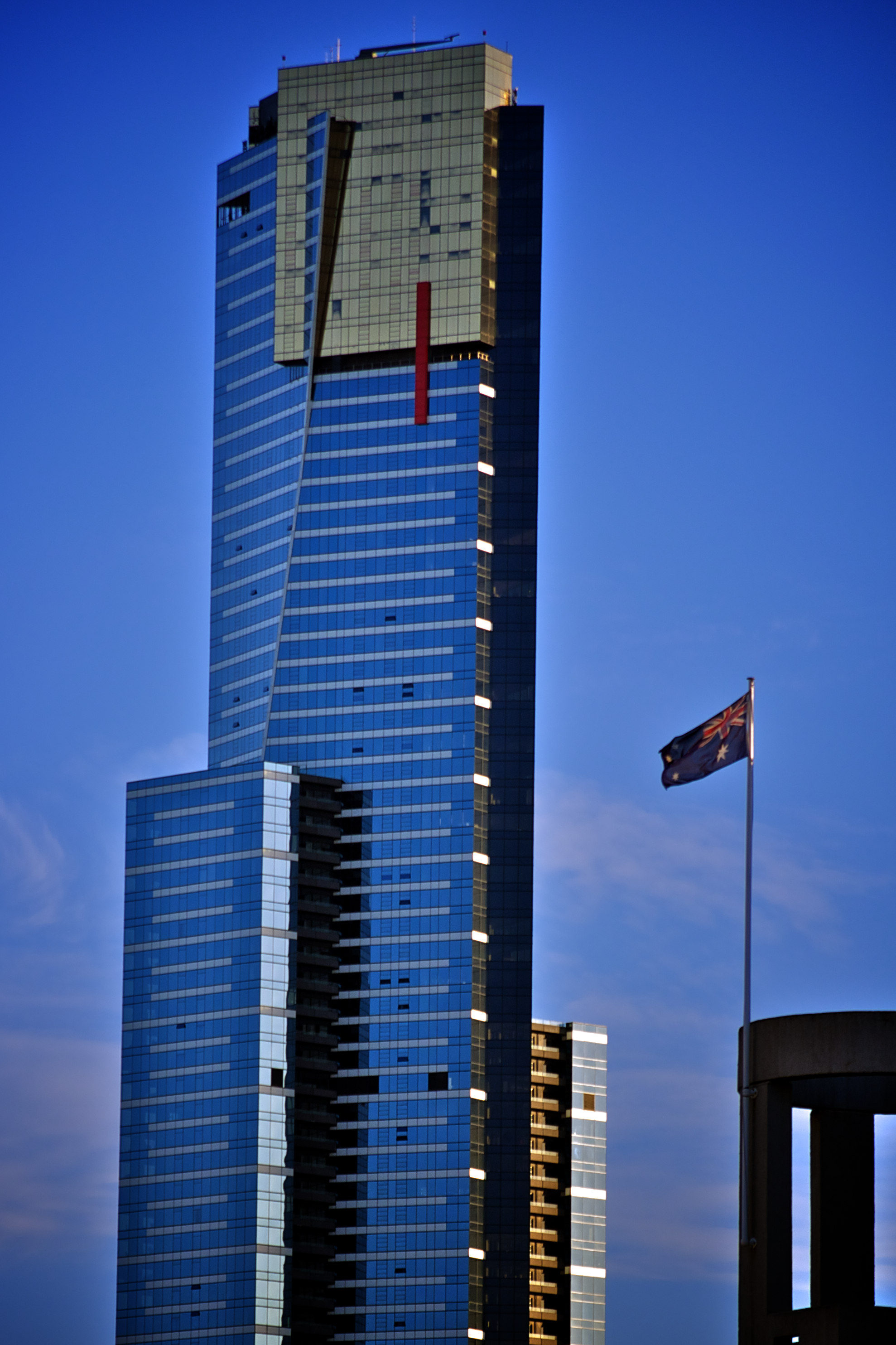 Eureka Tower, Melbourne, Australia.